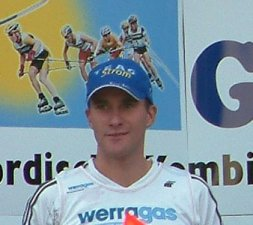 Ronny Ackermann 2004